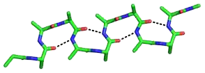 A motif that recurs as a small part of many proteins called a beta bend ribbon